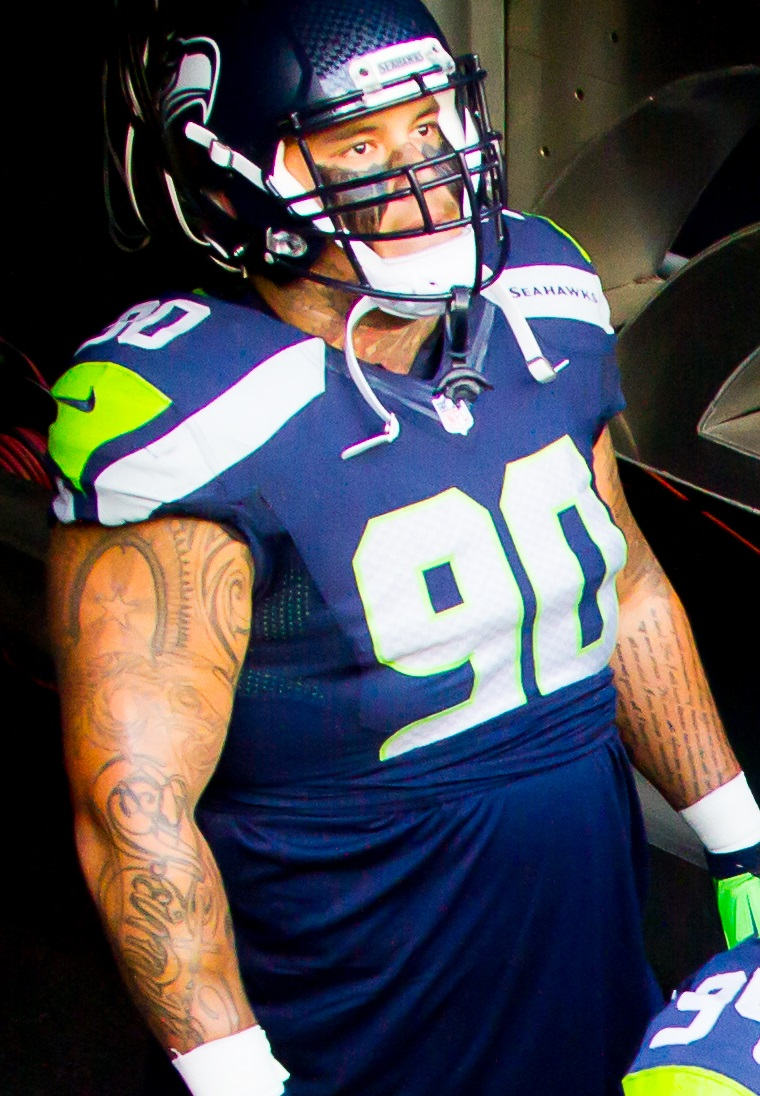 2015 preseason